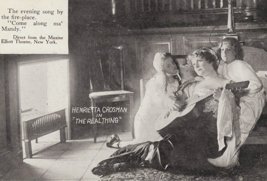 Henrietta Crosman (center) in the Broadway production The Real Thing - lobby card (cropped)